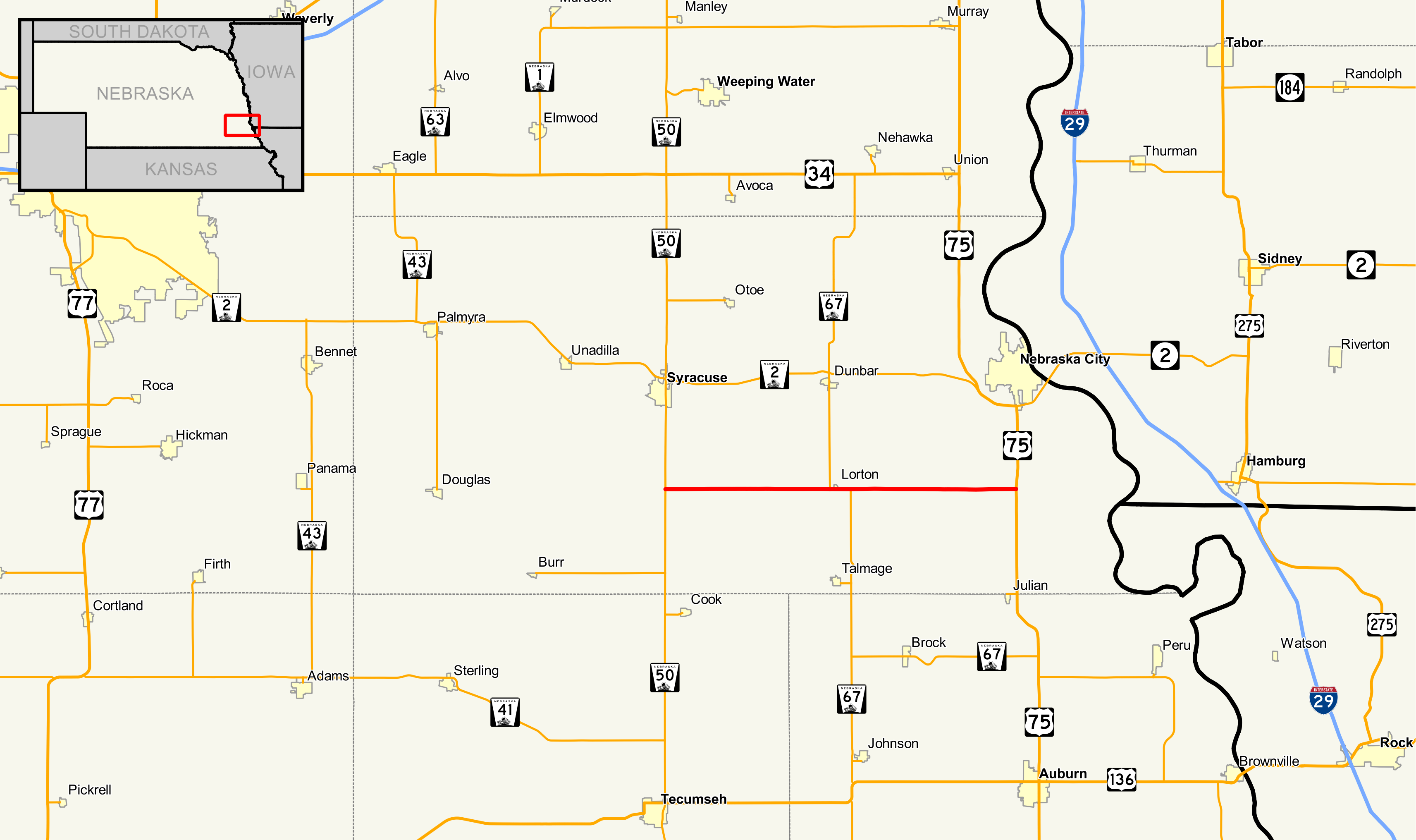 Map of Nebraska Highway 128 Data Sources: Nebraska Highways - - Dec 2016 Nebraska County Boundaries - - Dec 2016 Nebraska City Boundaries - - Dec 2016 This PNG graphic was created with QGIS